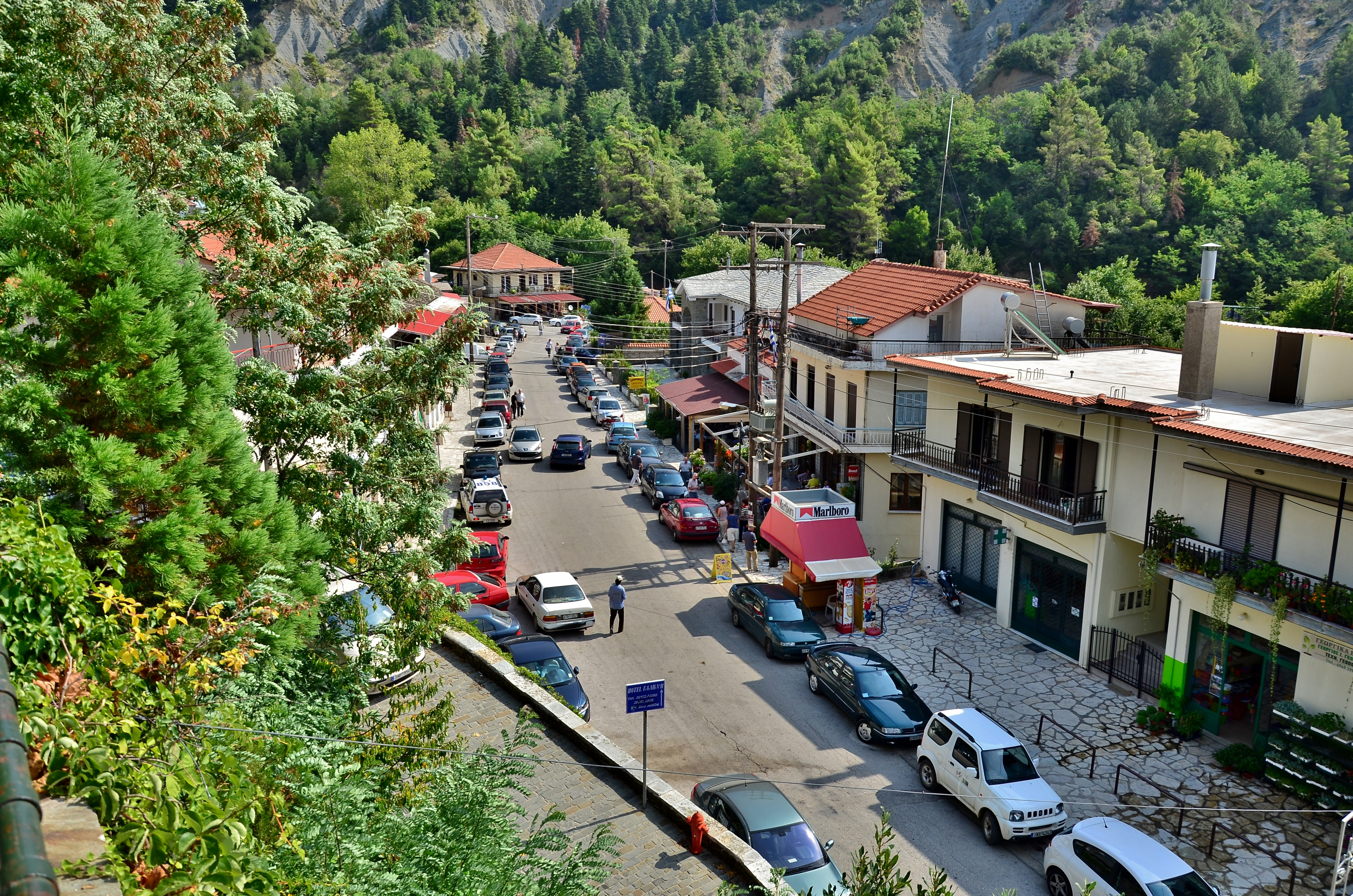 The central road of Voulgareli